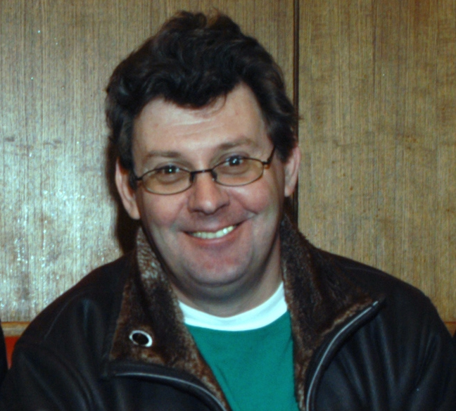 Photo of Jake Burns of the musical group Stiff Little Fingers.